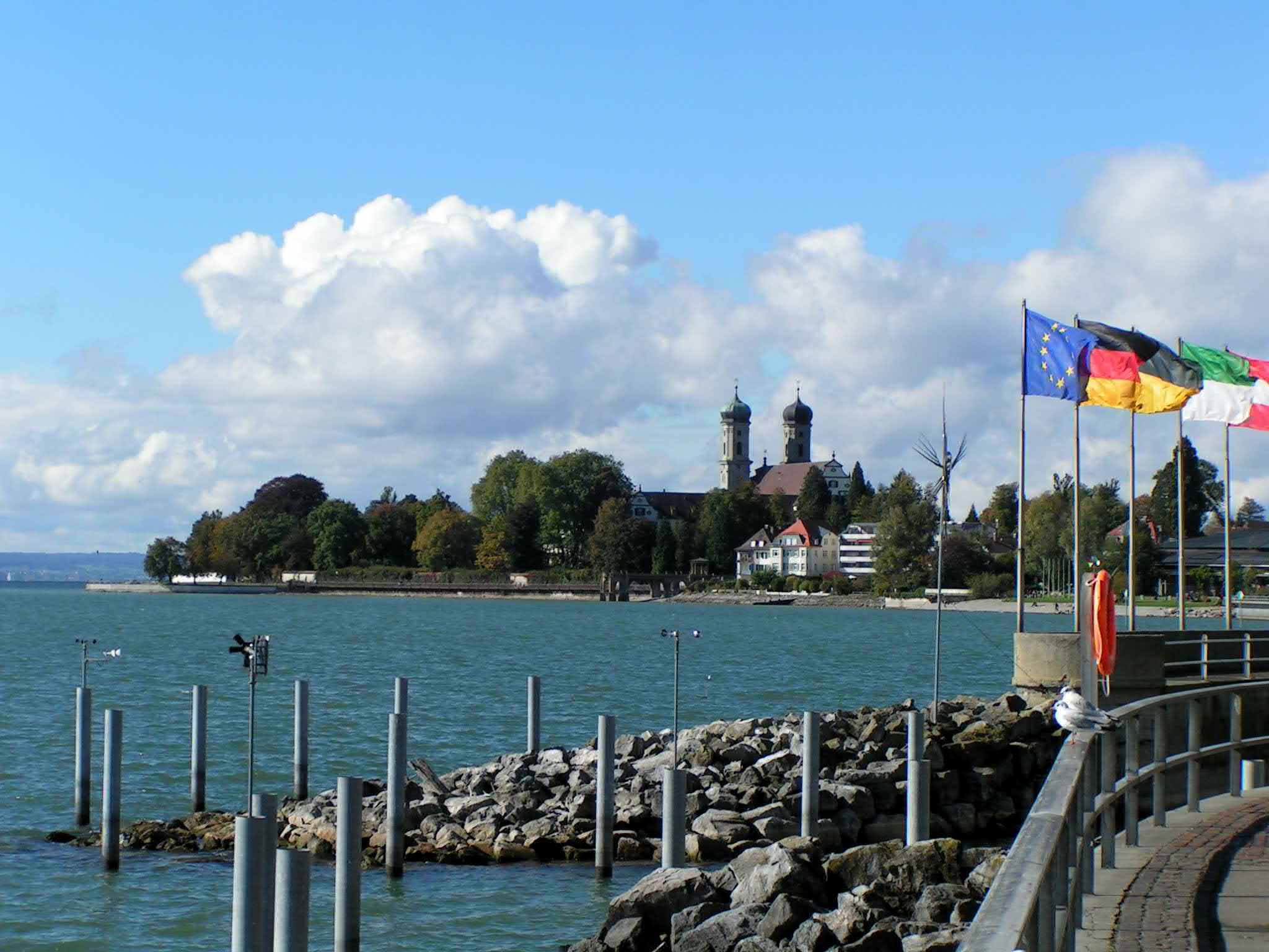 Friedrichshafen, Germany: Lake Constance and Schlosskirche